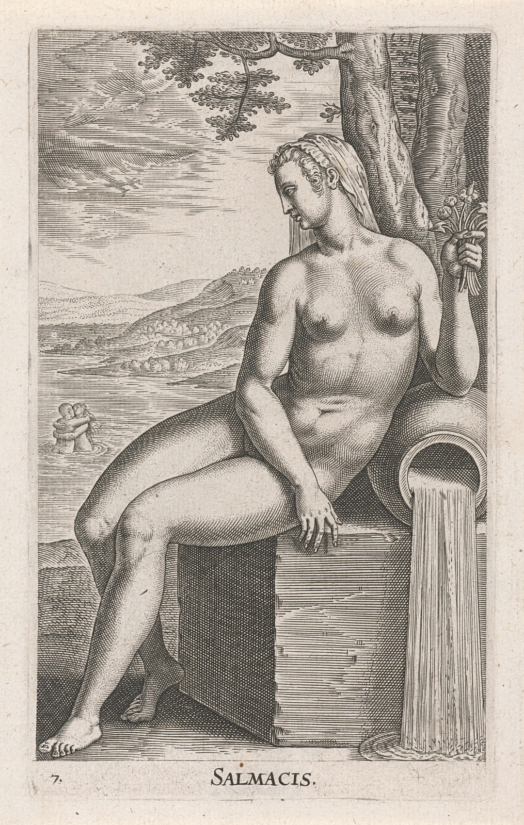 Water Nymph Salmacis, 1587, engraving, 16.5 x 10.1 cm, Rijksmuseum, Amsterdam.